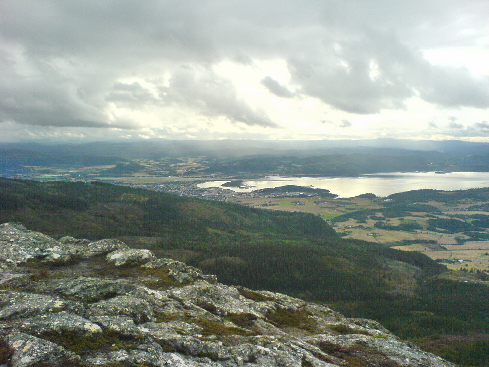 A overview picture of Stjørdal in Norway, taken from the top of Forbordsfjellet.